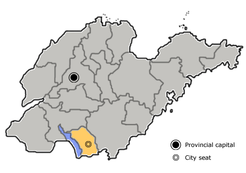 The prefecture-level city of Zaozhuang is highlighted on this map of Shandong province, People's Republic of China.